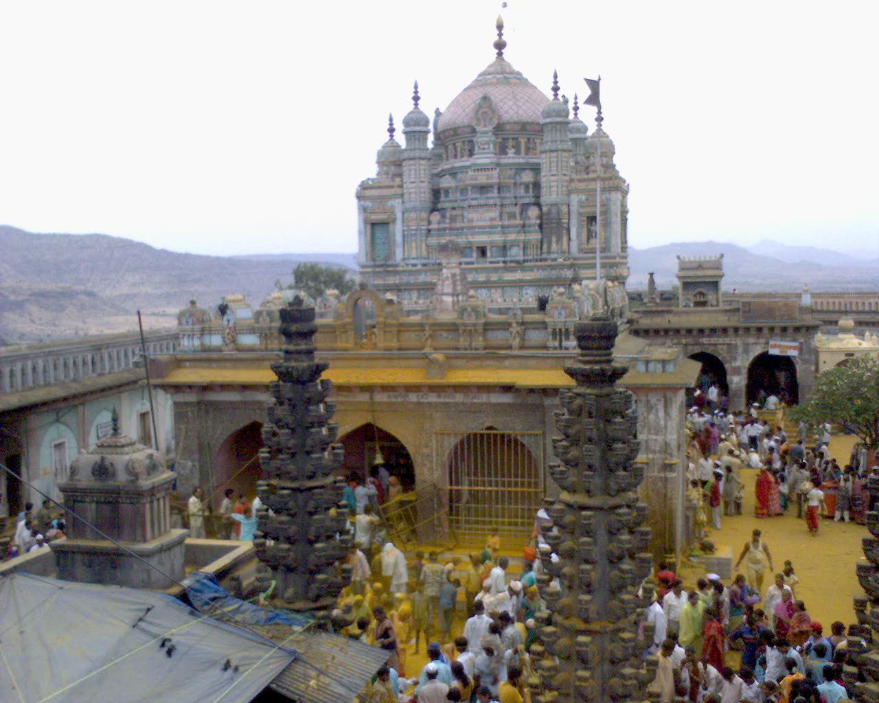 Khandoba Temple at Jejuri, Maharashtra